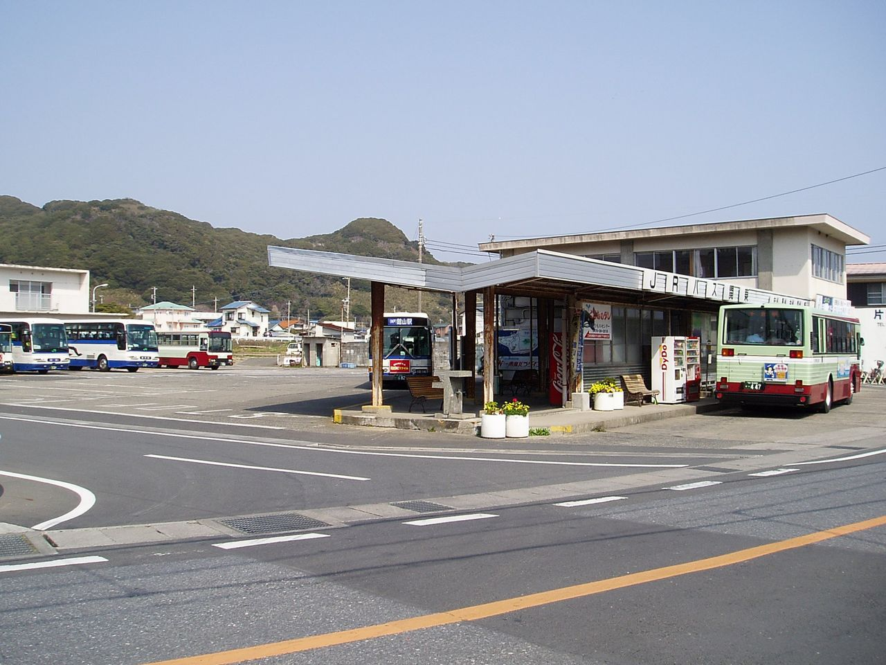 JR Bus Kanto Awa-Shirahama Sta